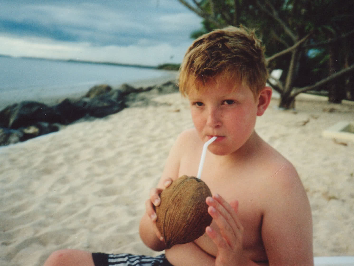 Rory Sykes on a beach in Fiji, drinking from a coconut.